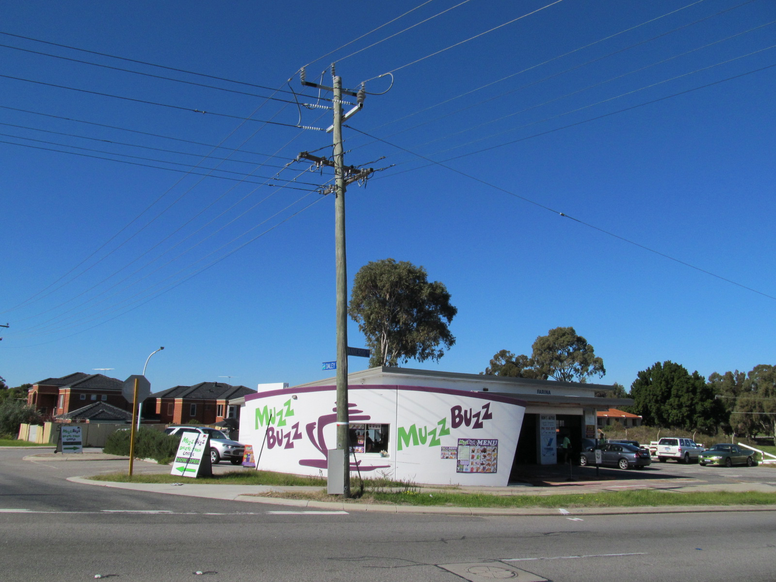 A Muzz Buzz store and the Farina garage located at the former site of a Gull petrol station, Wanneroo Road and Daley Street, Yokine, Western Australia.